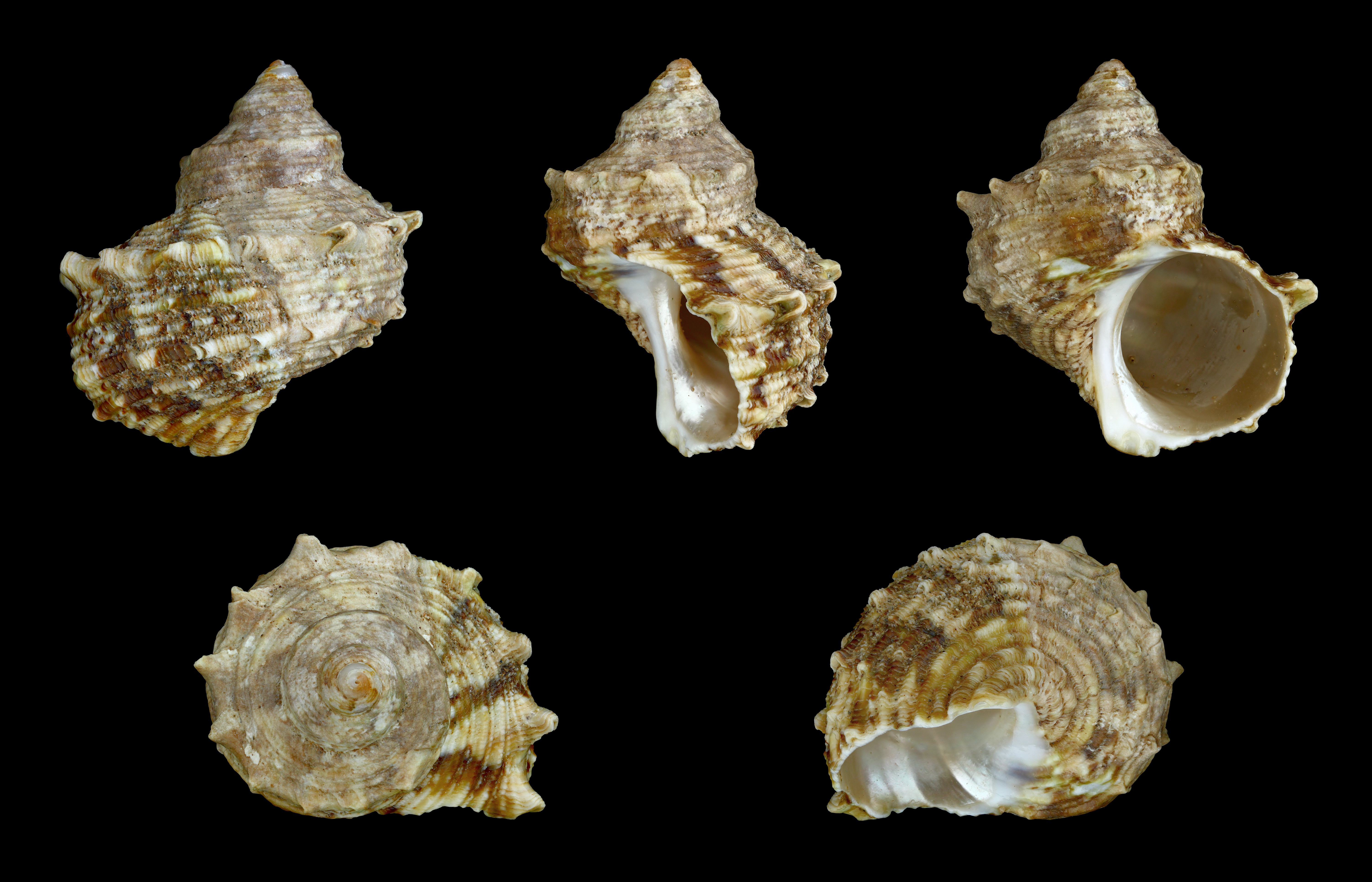 Speckle; Diameter 3.4 cm; Originating from from the Red Sea, Gulf of Aqaba, Tabuk Region, Saudi Arabia; Shell of own collection, therefore not geocoded.